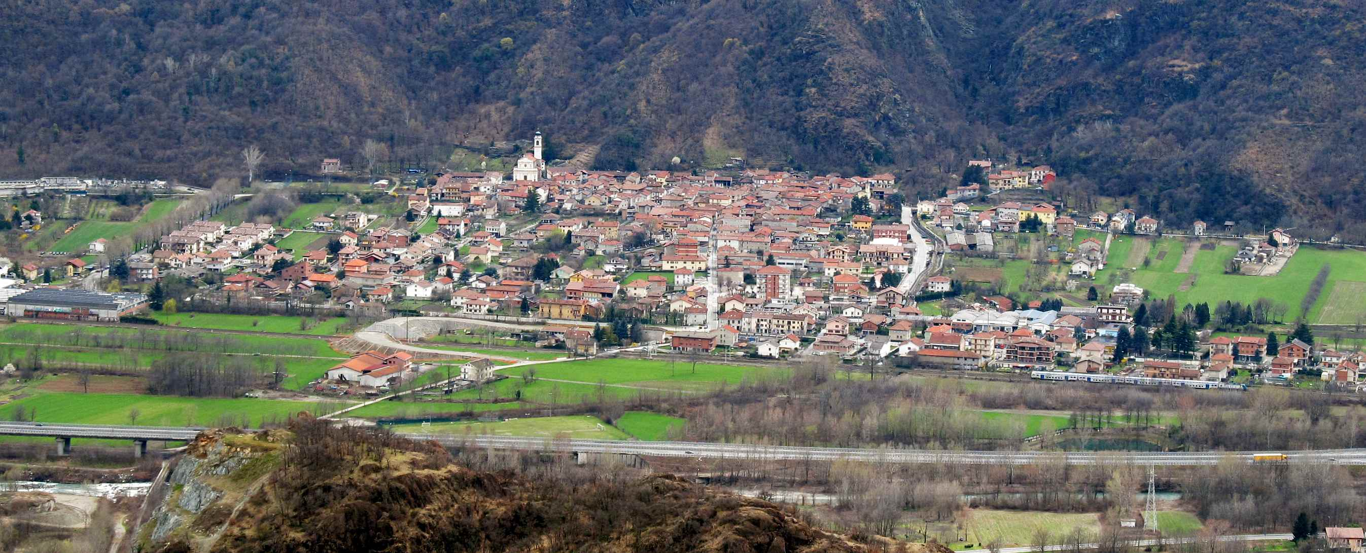 Chiusa di San Michele (TO, Italy): panorama froml truc del Serro